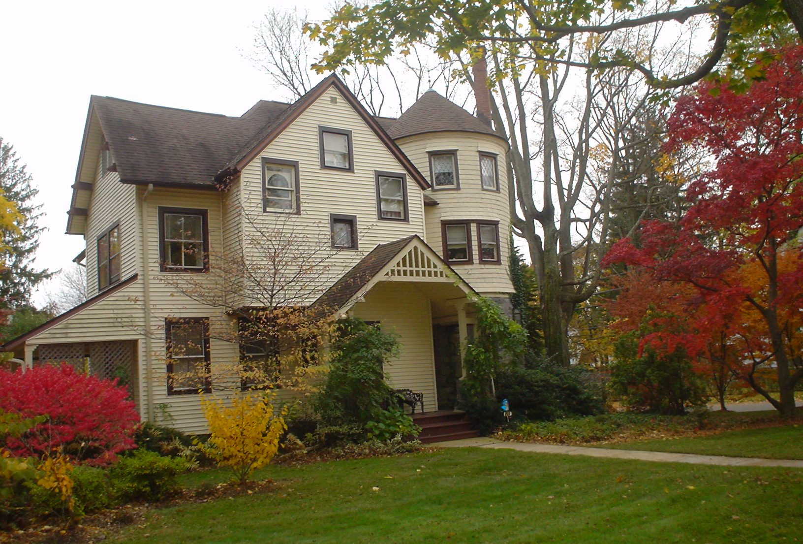 House in the North Wayne Historical District (NRHP) in Wayne, PA. This house is at 200 Walnut, Wayne, PA